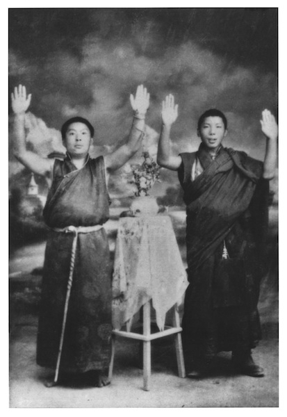 Khenpo Gangshar (left) and Chögyam Trungpa, imbibing the crazy wisdom. Surmang.